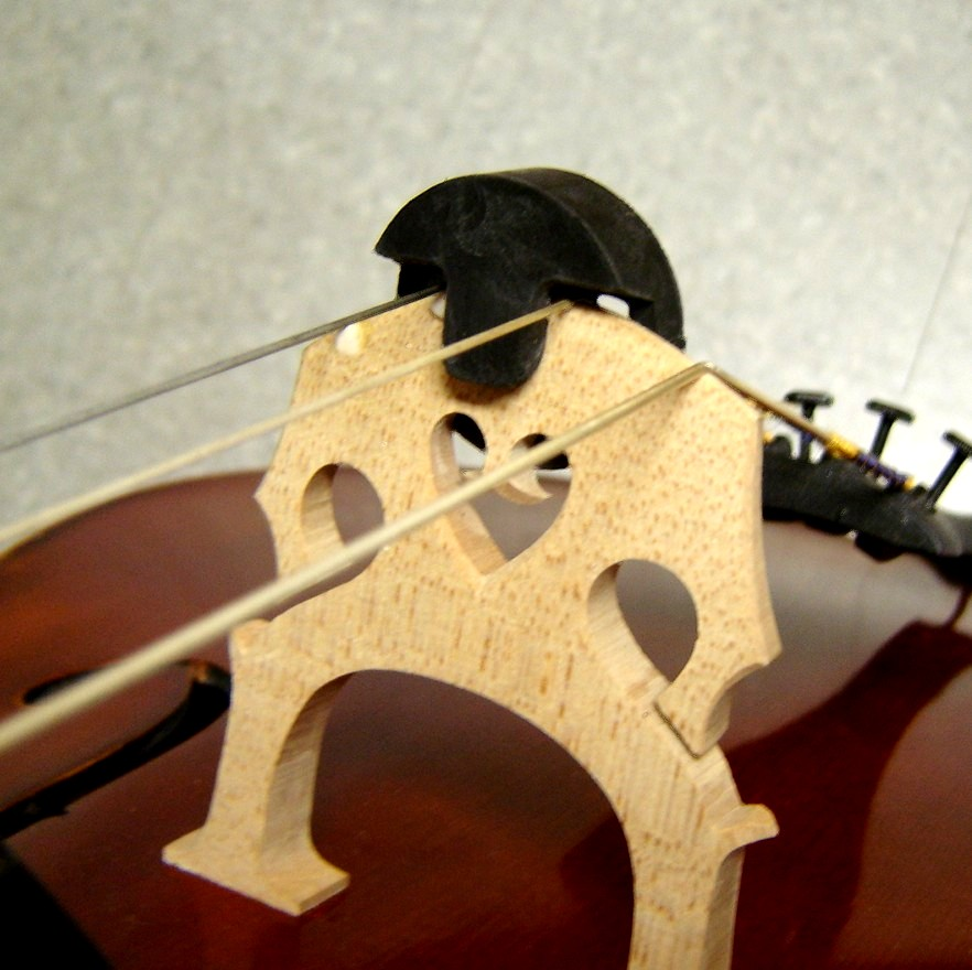 Showing the placement of a rubber mute on a cello